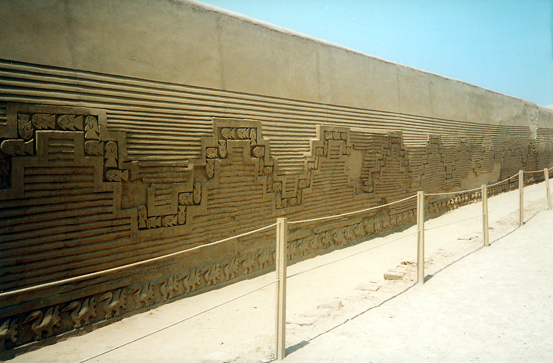 Chan Chan, the huge adobe town from Chimu time. Trujillo, Peru.